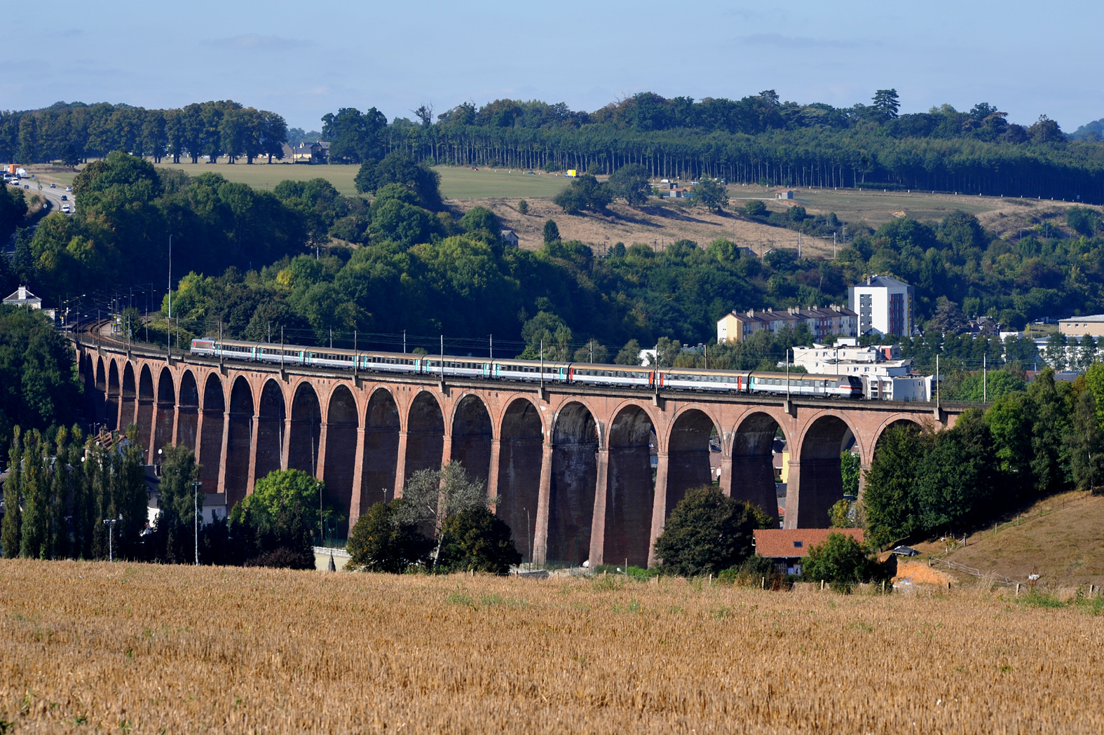 Pont Austreberthe in Barentin; Seine-Maritime, France.